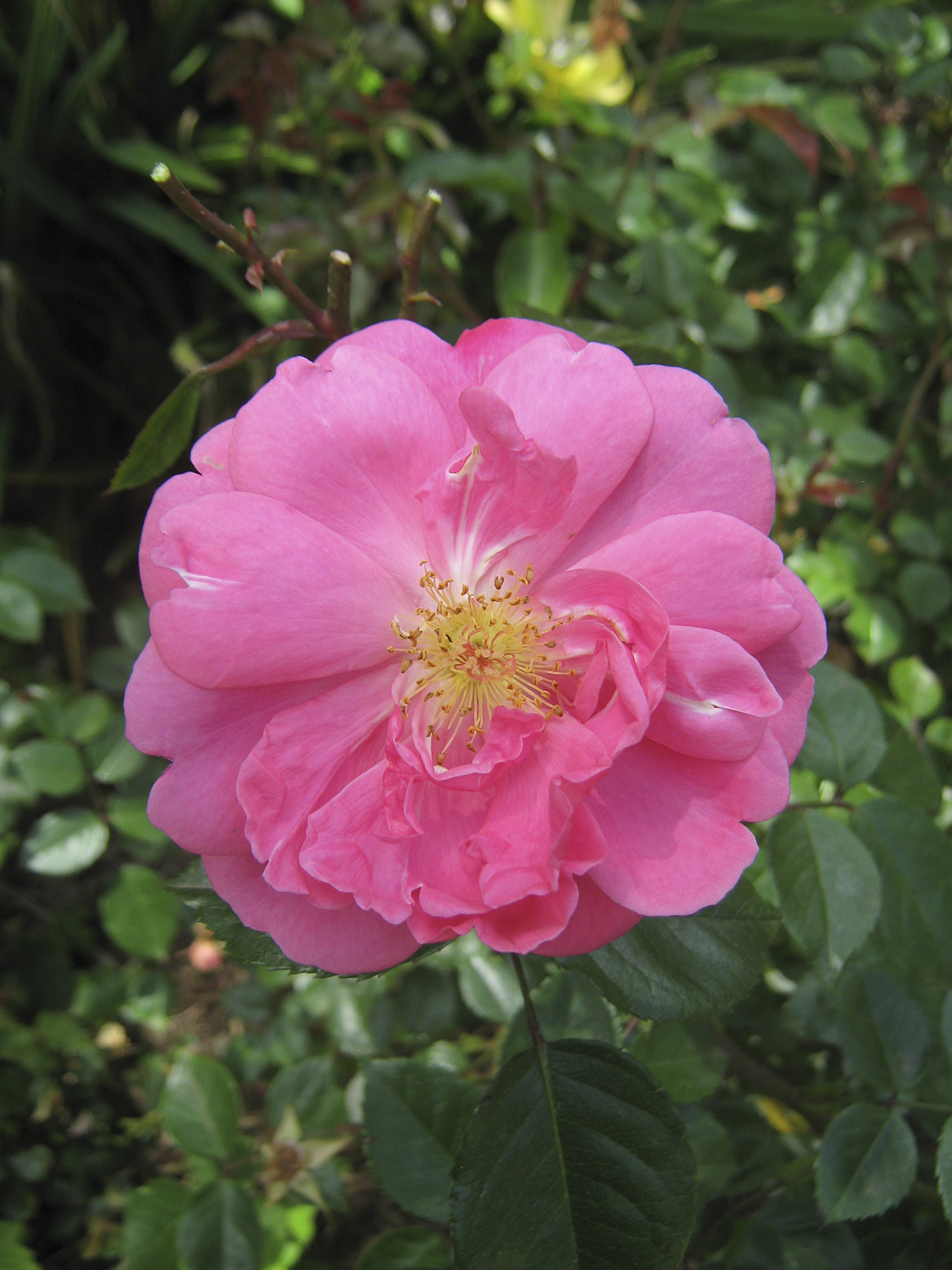 Rose 'Marjory Palmer', Polyantha by Alister Clark 1936; Photographed in the Alister Clark Memorial Rose Garden, Bulla, VIctoria